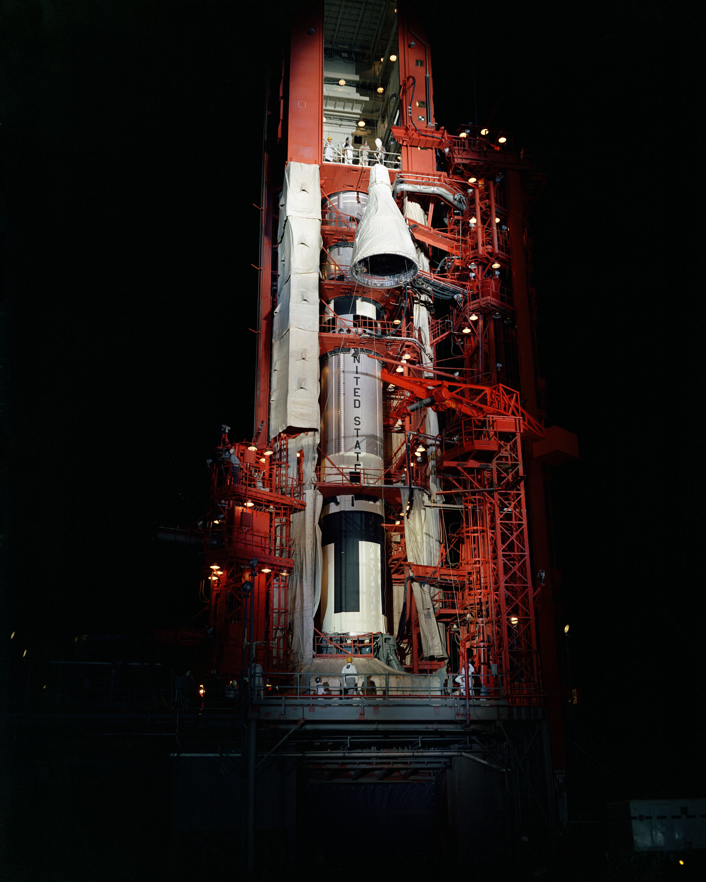 Nighttime scene showing the Gemini-4 spacecraft being hoisted to the white room at the top of the gantry at Pad 19 for soft mating with the Titan launch vehicle.